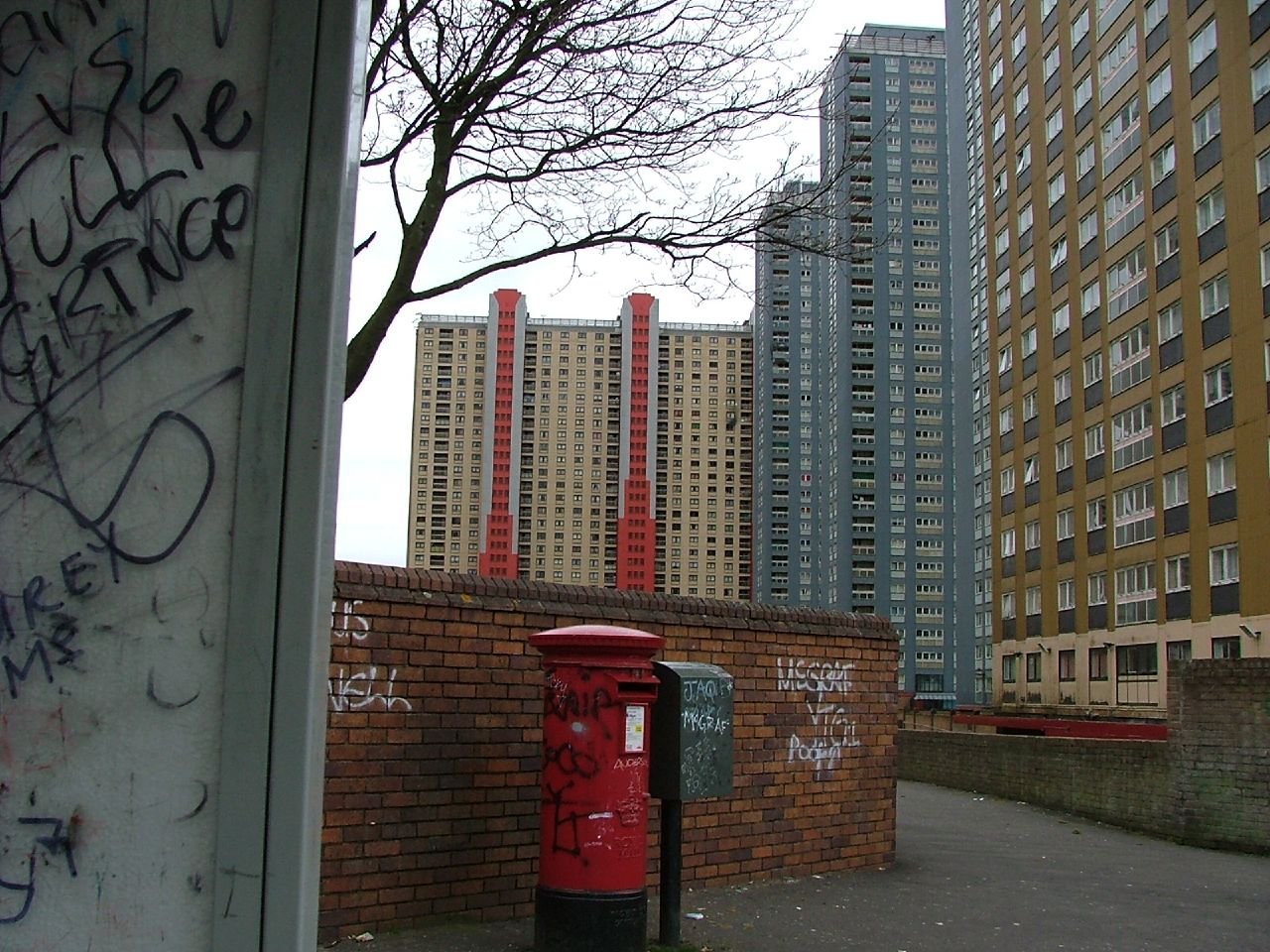 Their future fate is uncertain, some at least are due to be demolished.